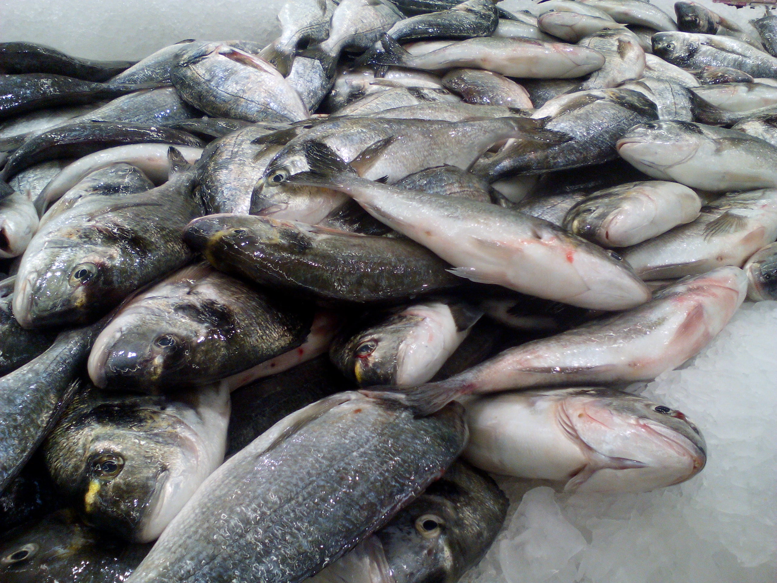 bream